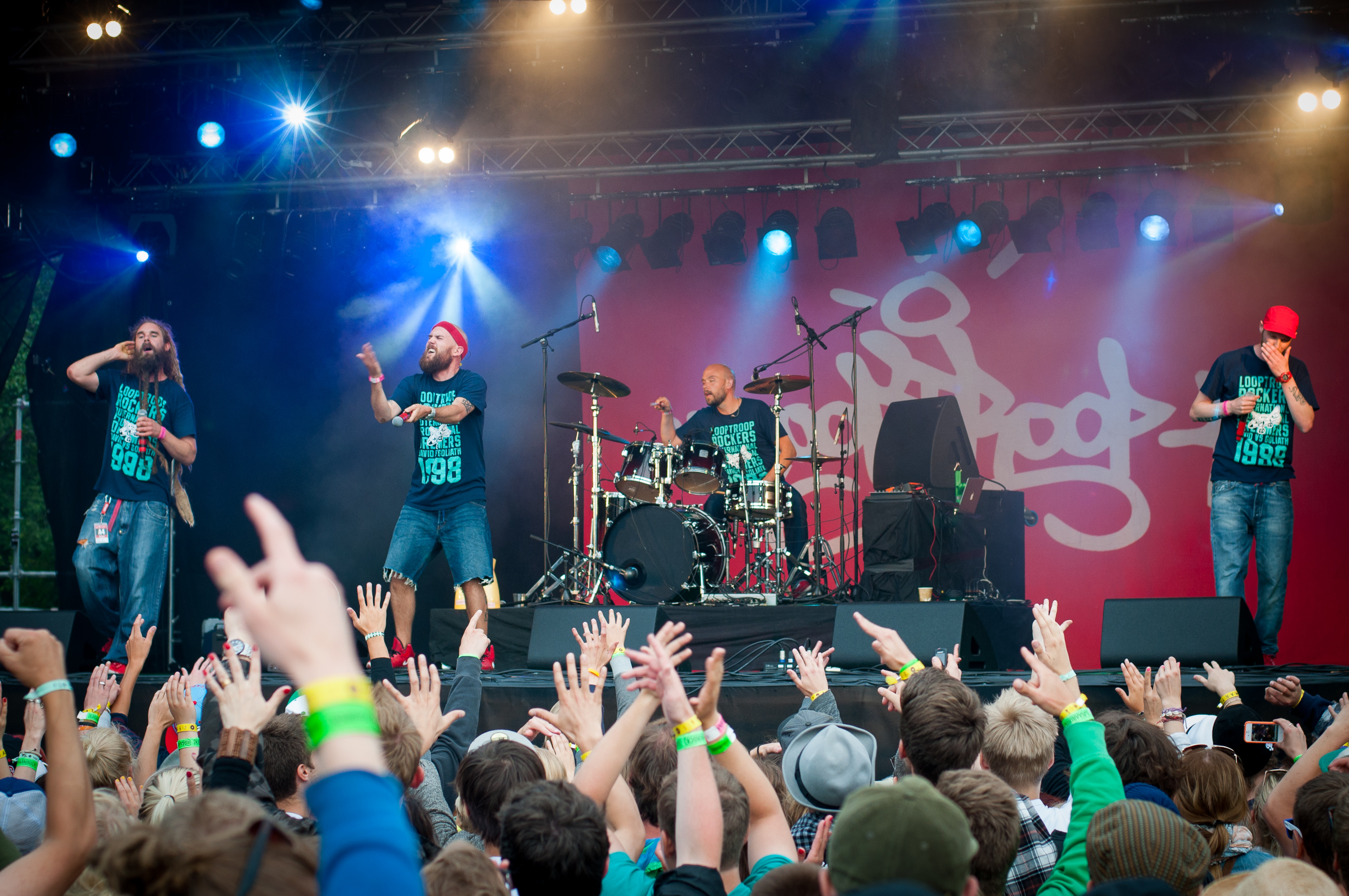 Swedish hip hop group Looptroop Rockers performing at the 2012 Ilosaarirock festival in Joensuu, Finland.